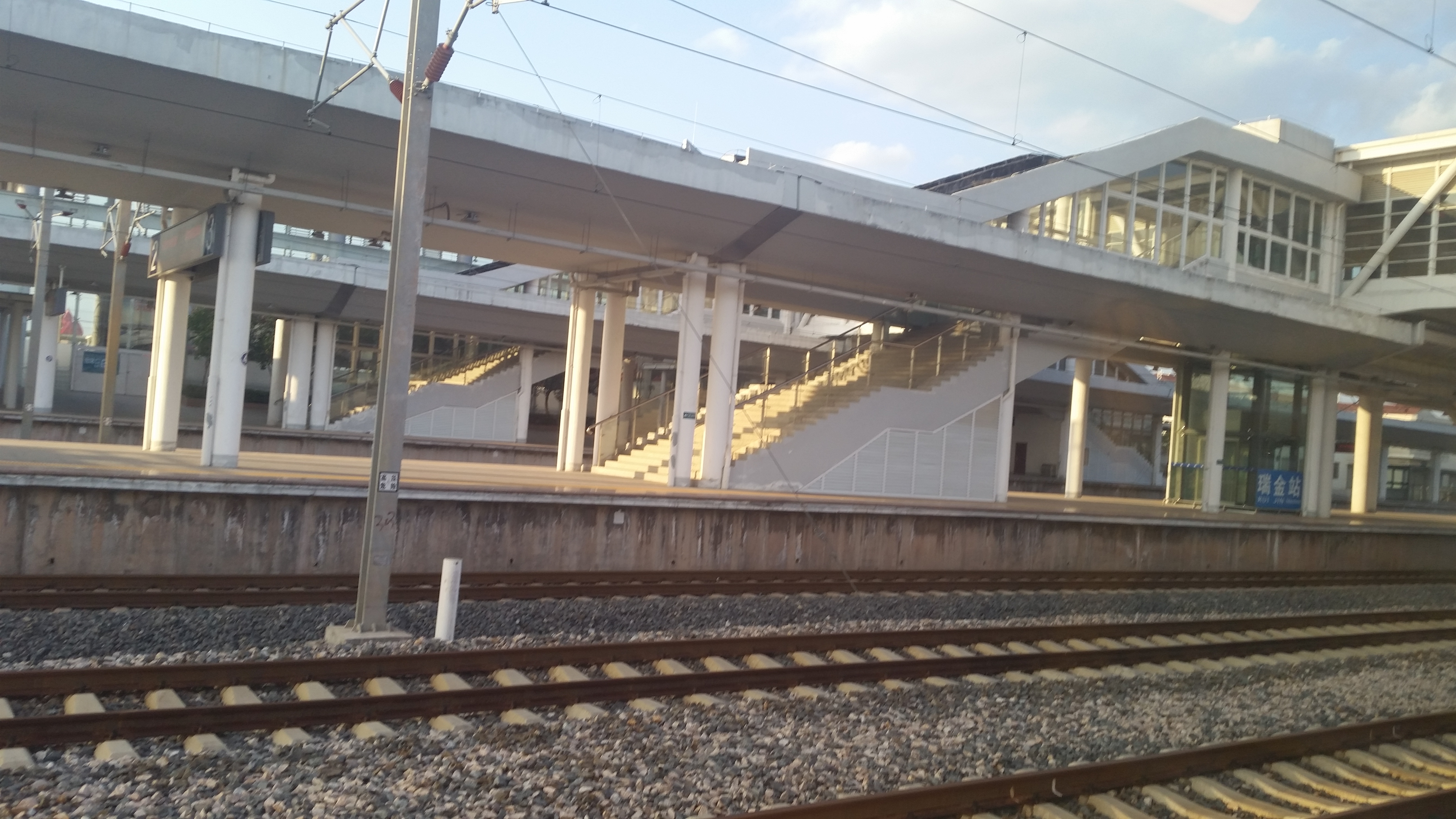 瑞金站1-3站台和站内正线